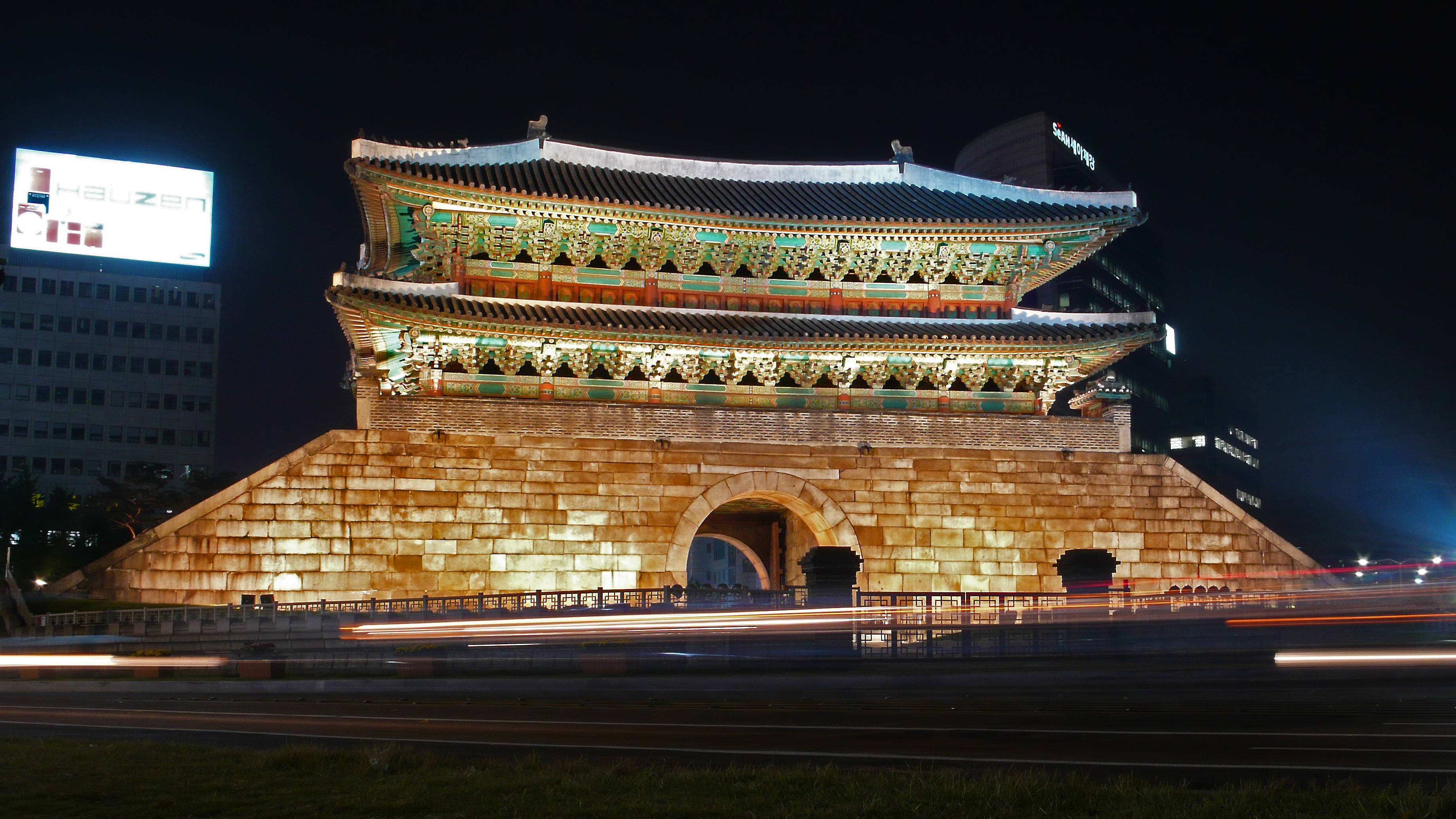 Namdaemun (Great South Gate) in Seoul at night.